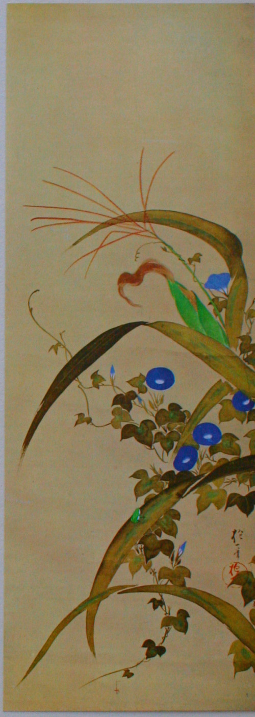 Sakai Hoitsu: one of tweleve hanging scrolls set, Flowers and Birds of Twelve Months, ACE1823, Edo period. color on silk, 140 x 50 cm., Imperial Collection, Tokyo, Japan